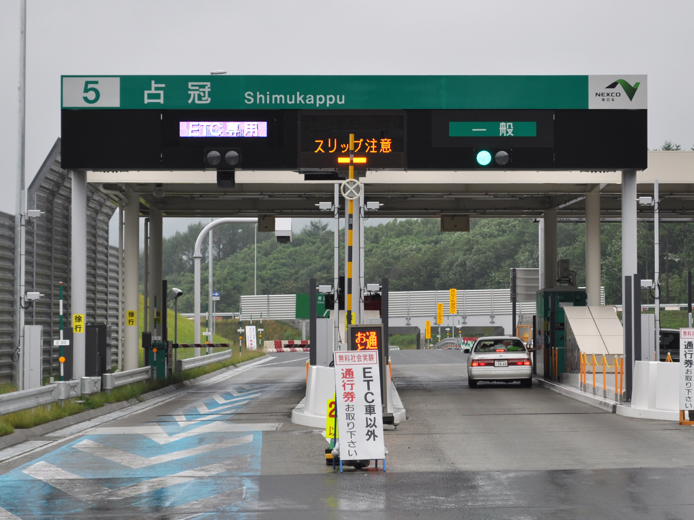 Entrance of Shimukappu Interchange in Shimukappu Village, Hokkaido, Japan